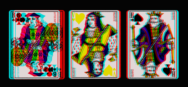 Anaglyph scene with playing cards. Anaglyph image.